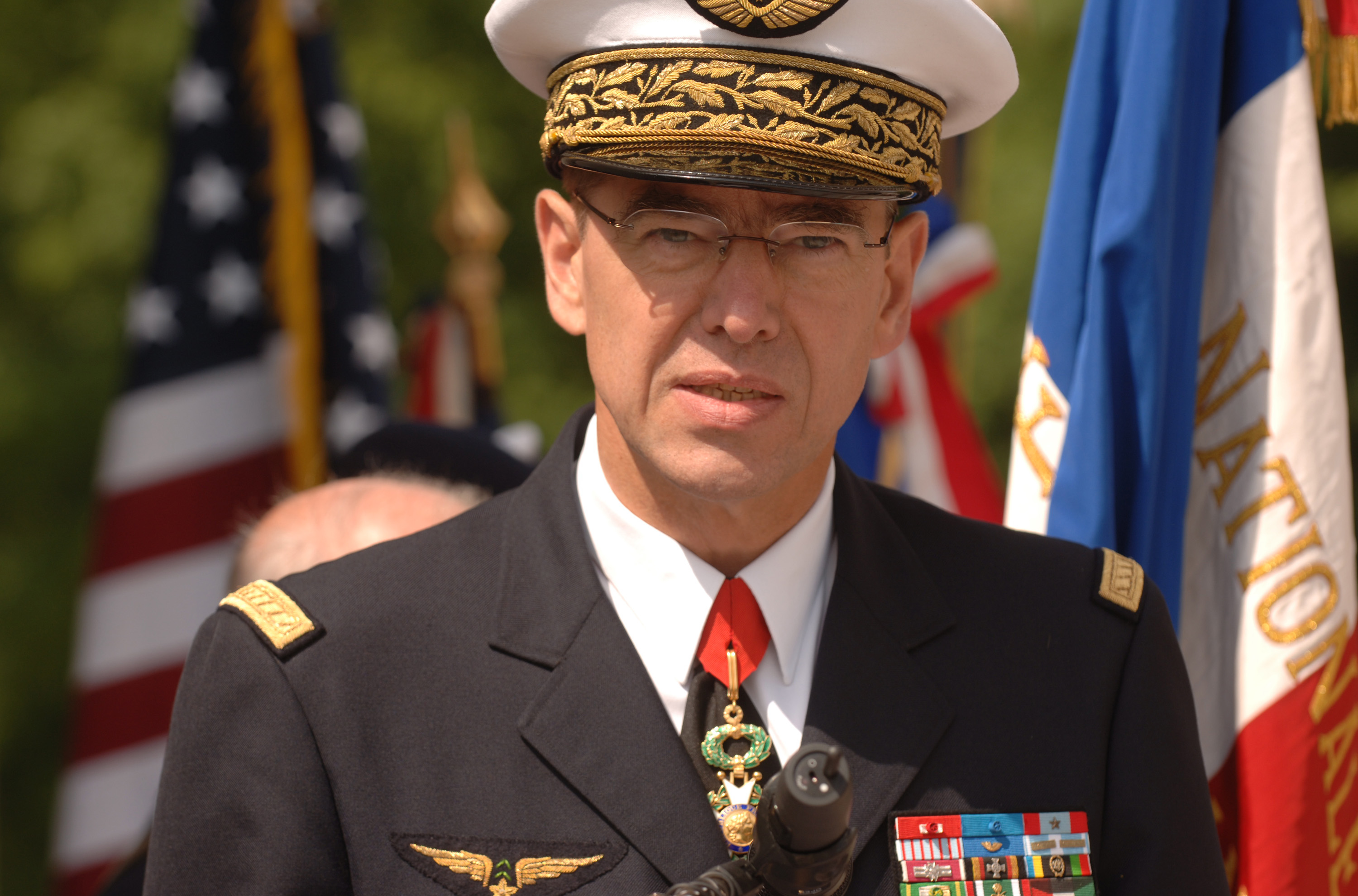 Stéphane Abrial, French air force chief of staff, speaks during the Lafayette Escadrille memorial ceremony outside of Paris 24 May 2008 where French and American citizens paid homage to the United States' first combat aviators. The all-American squadron of volunteers flew under the French flag during the First World War, and many gave their lives in defense of French democracy.